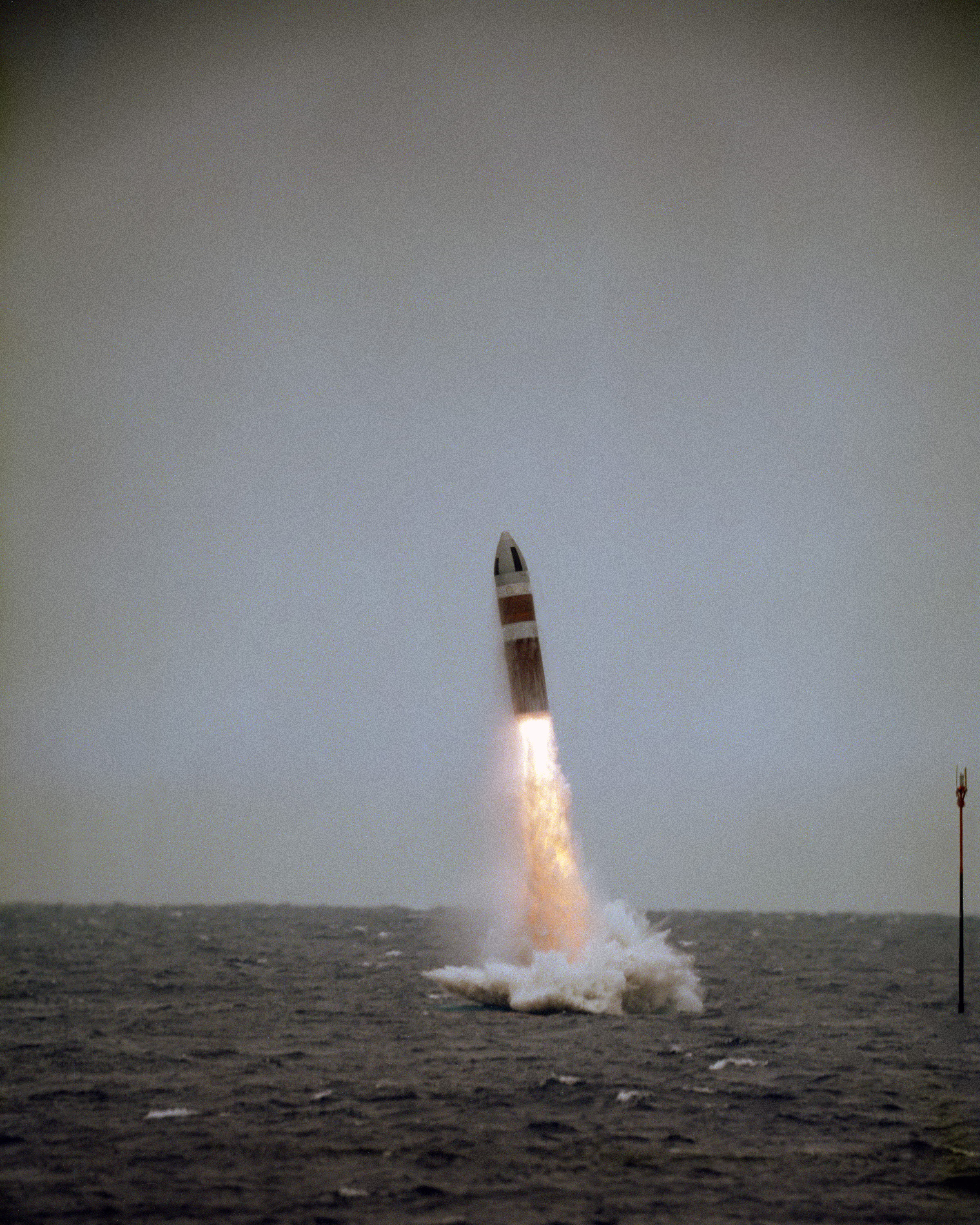 A UGM-73 Poseidon C-3 ballistic missile is launched from the U.S. Navy ballistic missile submarine USS Will Rogers (SSBN-659) on 20 May 1986. This was the 81st launch of a Poseidon missile and the 61st from a submarine.